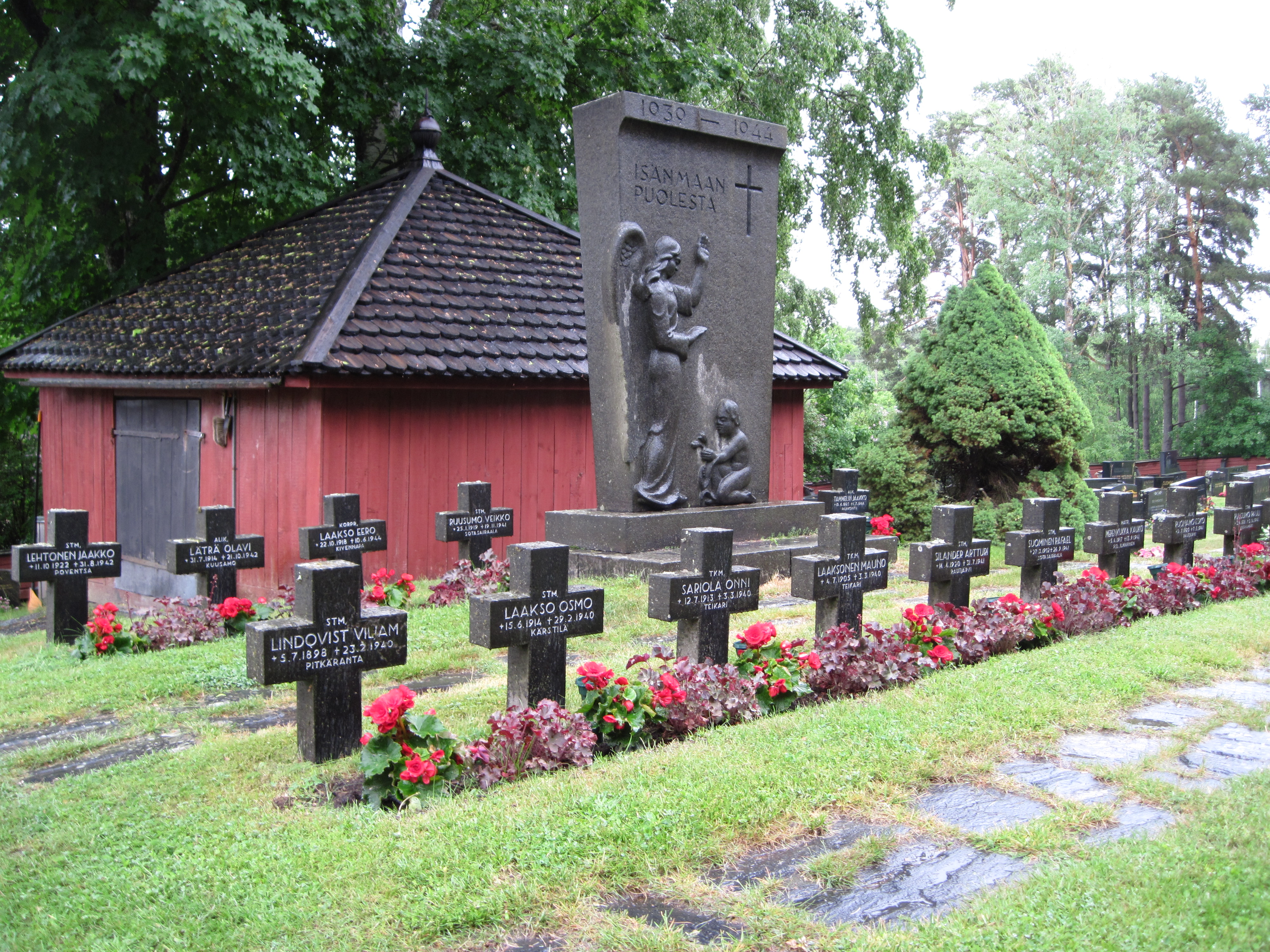 Military cemetary at church in Merimasku, Finland